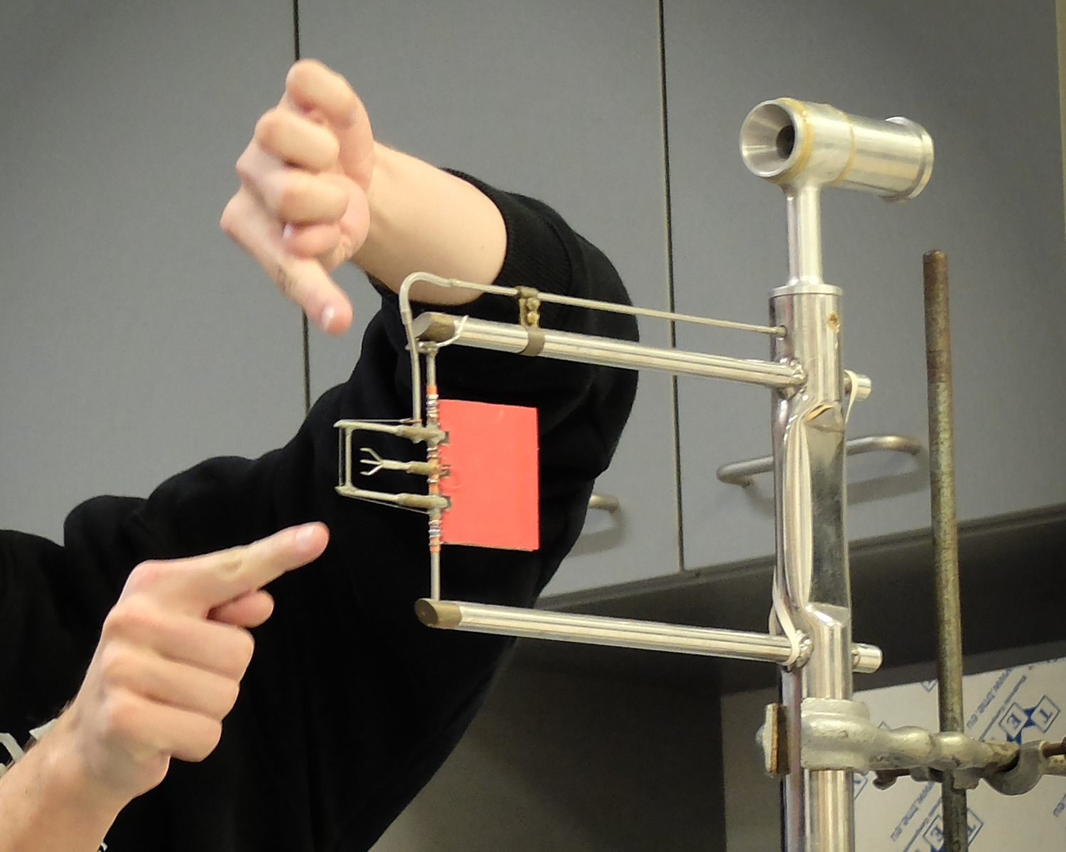 Ultrafast thermometer (UFT) for airborne measurements in clouds. Constructed at the Institute of Geophysics, Faculty of Physics, University of Warsaw.